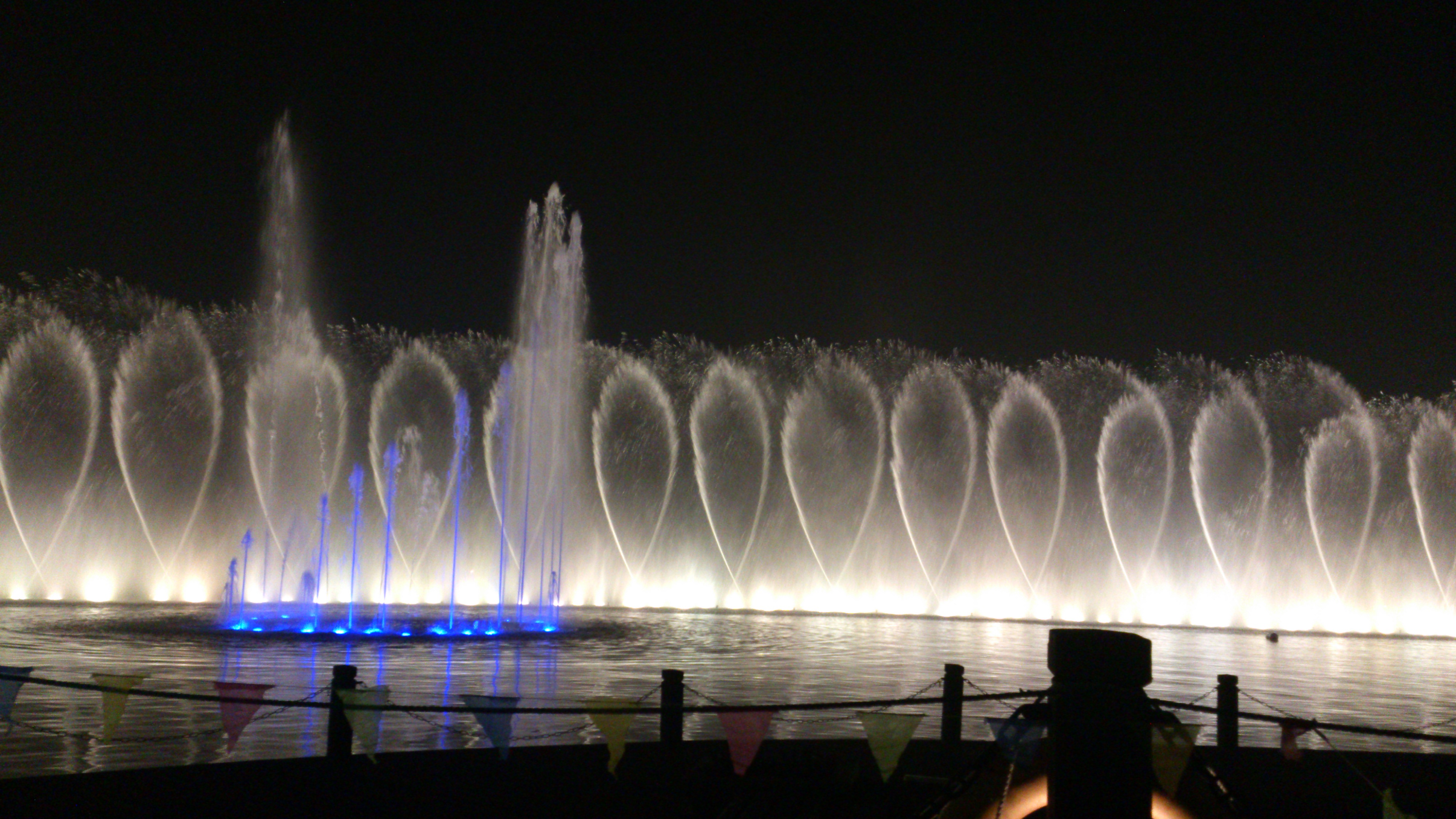 粵語: West Lake Fountain Show at night (until 2015)